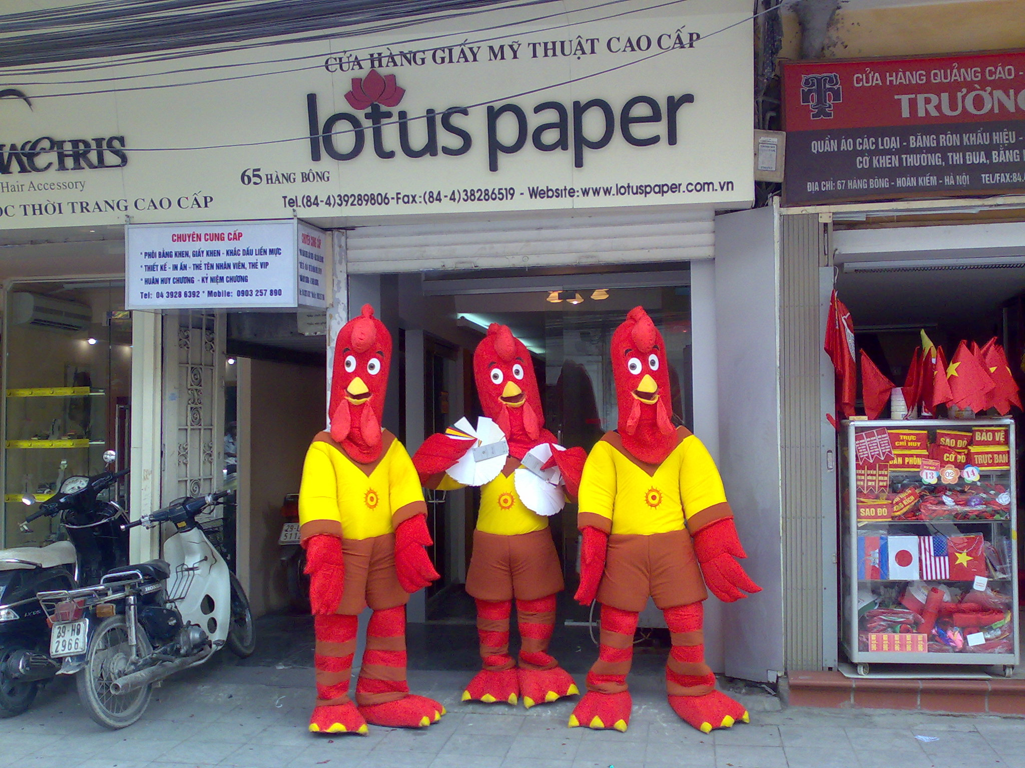 Hanoi welcome 2009 Asian Indoor Games